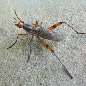 Photograph of a Marsh fly (Family Sciomyzidae) Photograph of a Marsh fly (Family Sciomyzidae) photographed at Kawai Nui Marsh on O'ahu, Hawai'i by Eric Guinther (Marshman) and released under the GNU Free Documentation License.